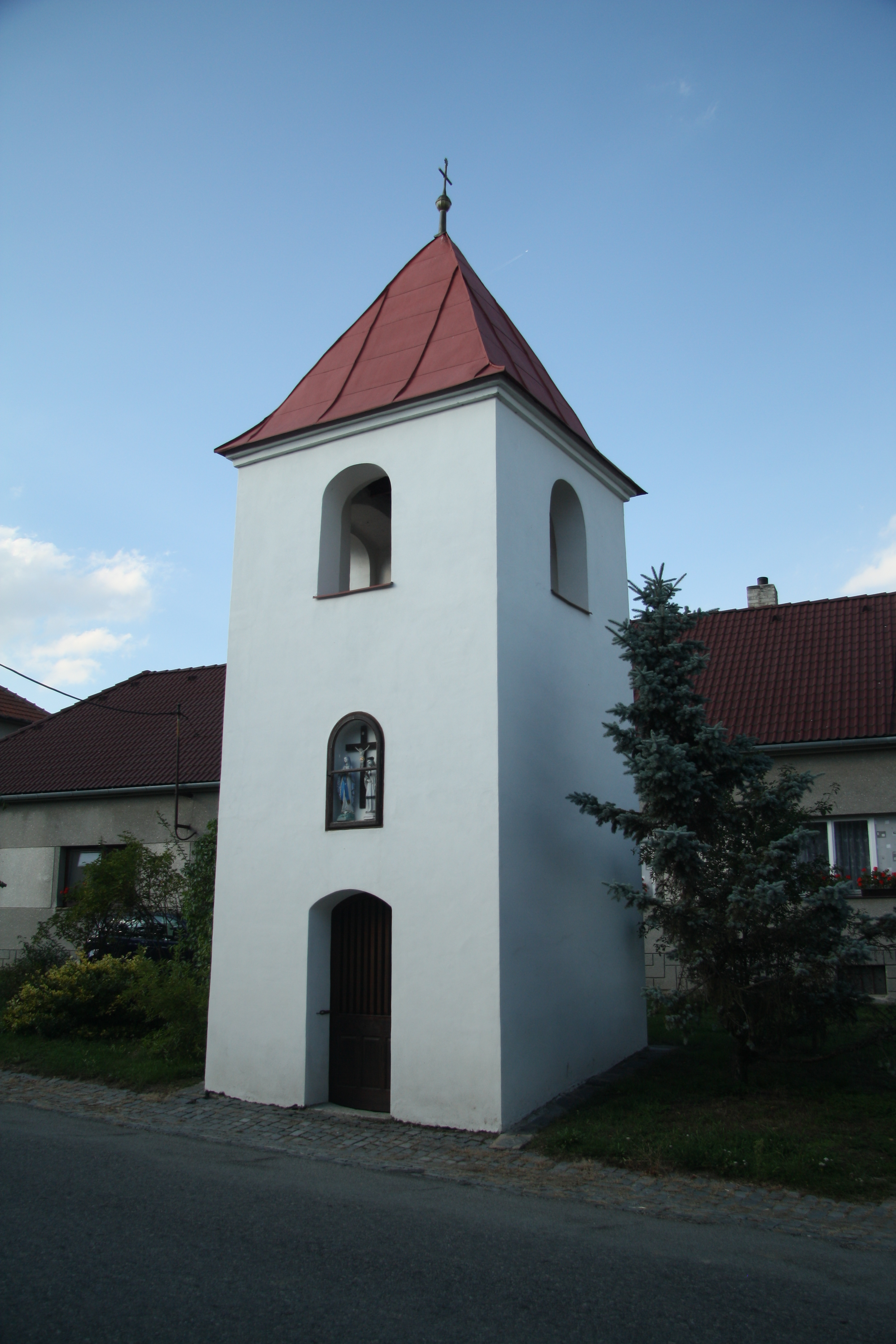 Chapel in Březka, Velká Bíteš, Žďár nad Sázavou District.